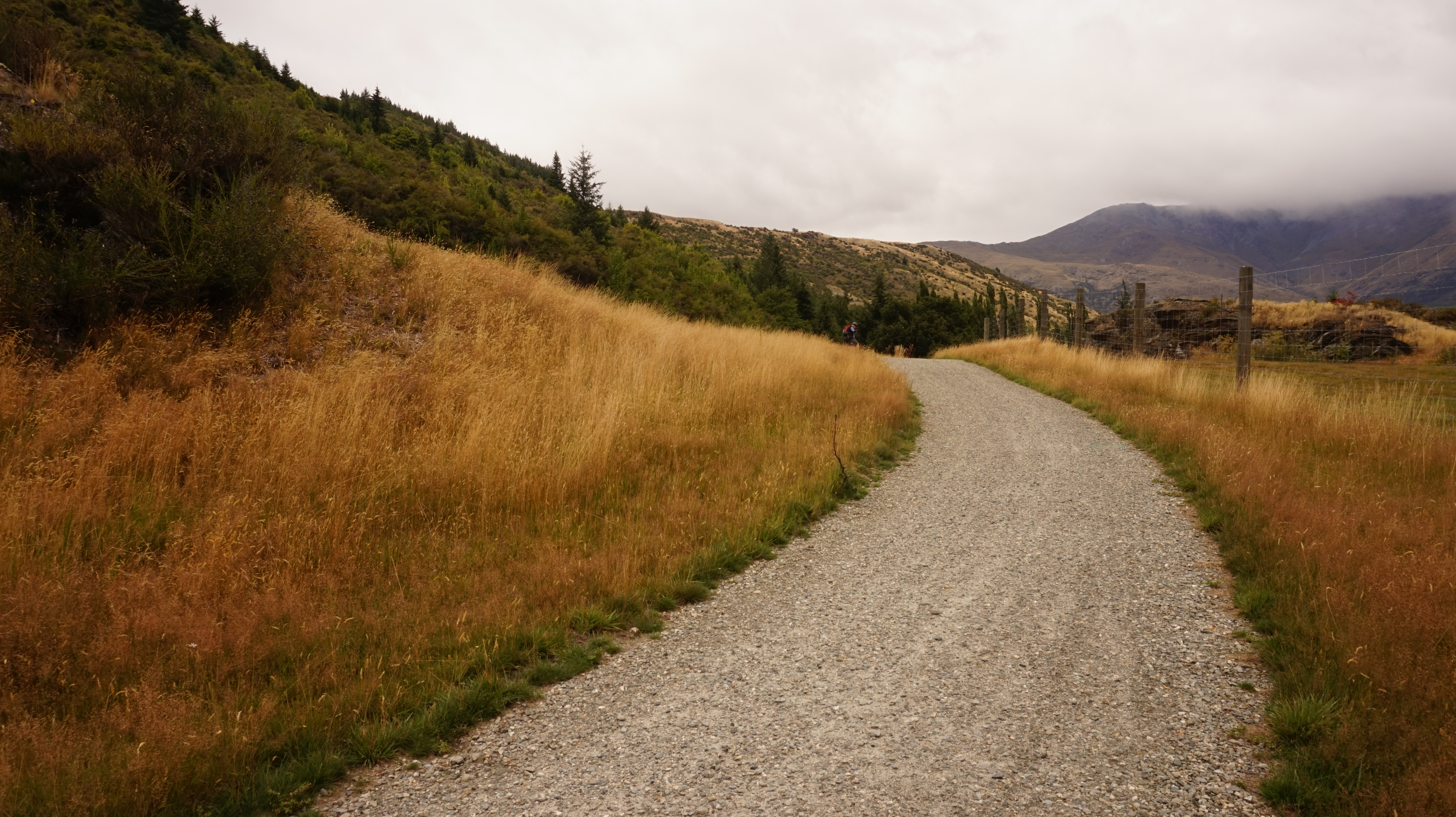 Queenstown